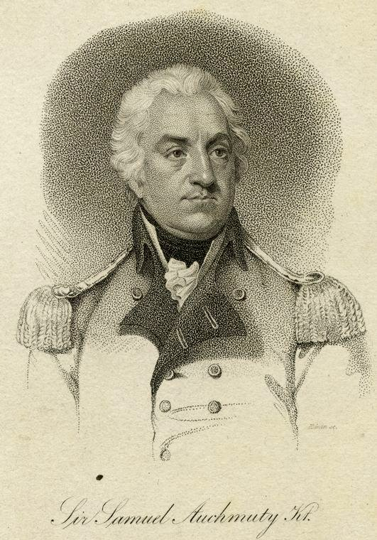 Samuel Auchmuty, (1756-1822), a loyalist soldier and British general.